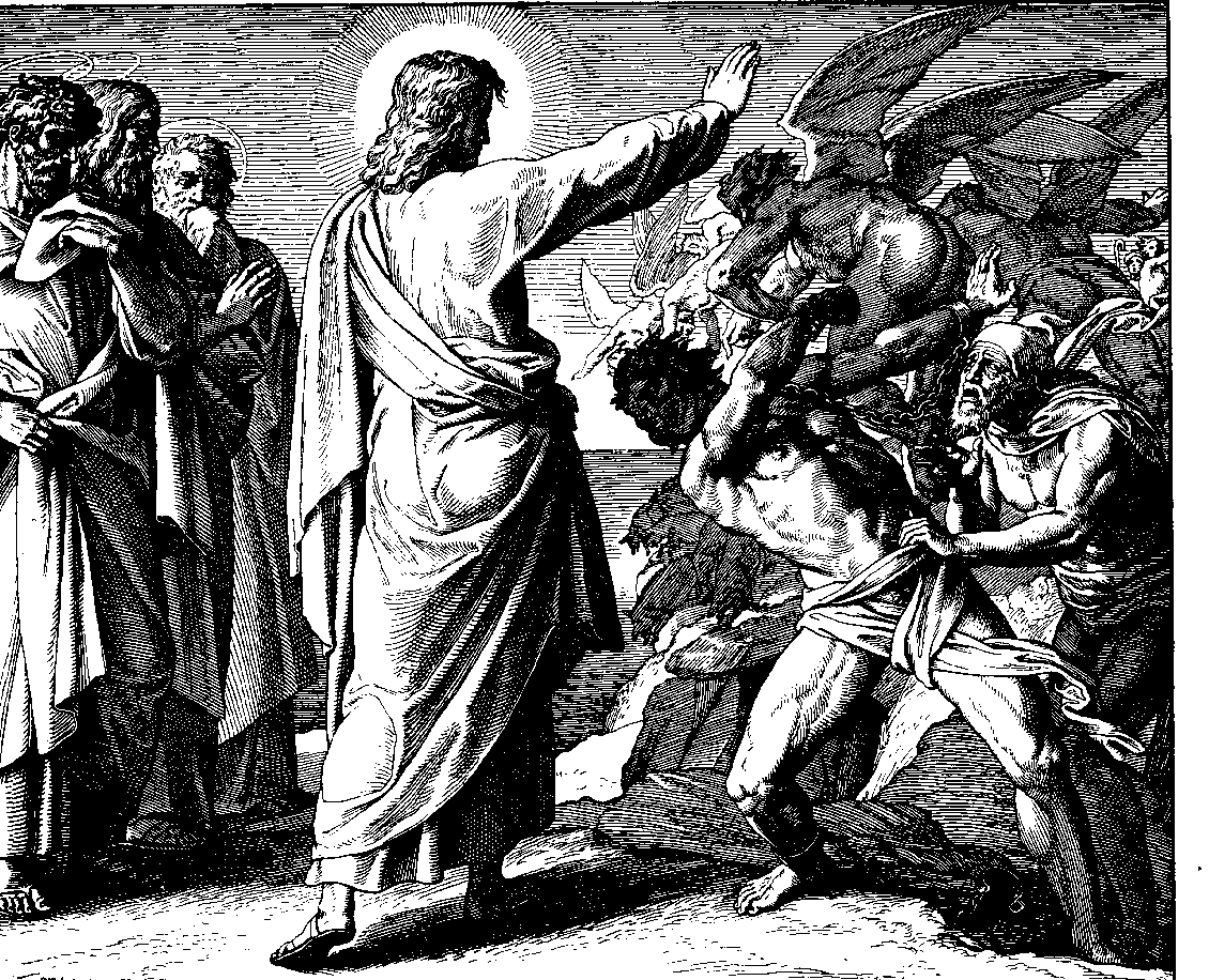 Woodcut for "Die Bibel in Bildern", 1860.